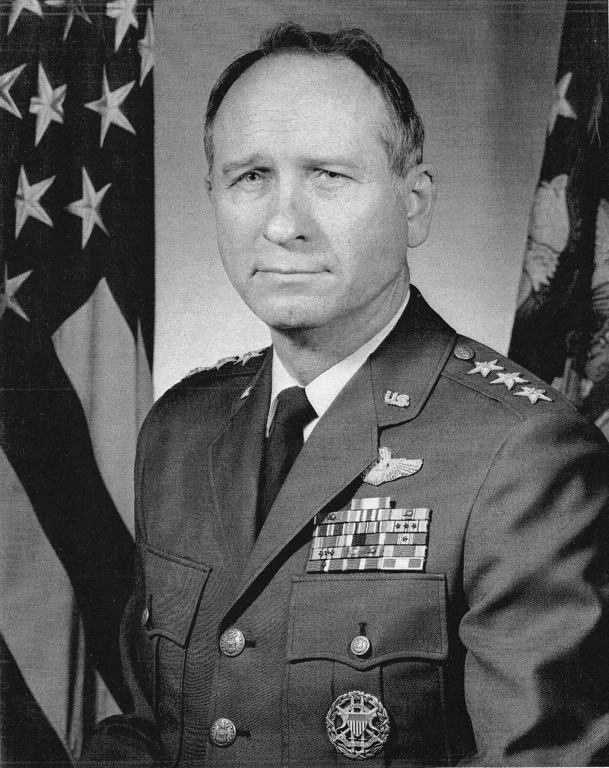 Lt Gen Ray B Sitton, USAF